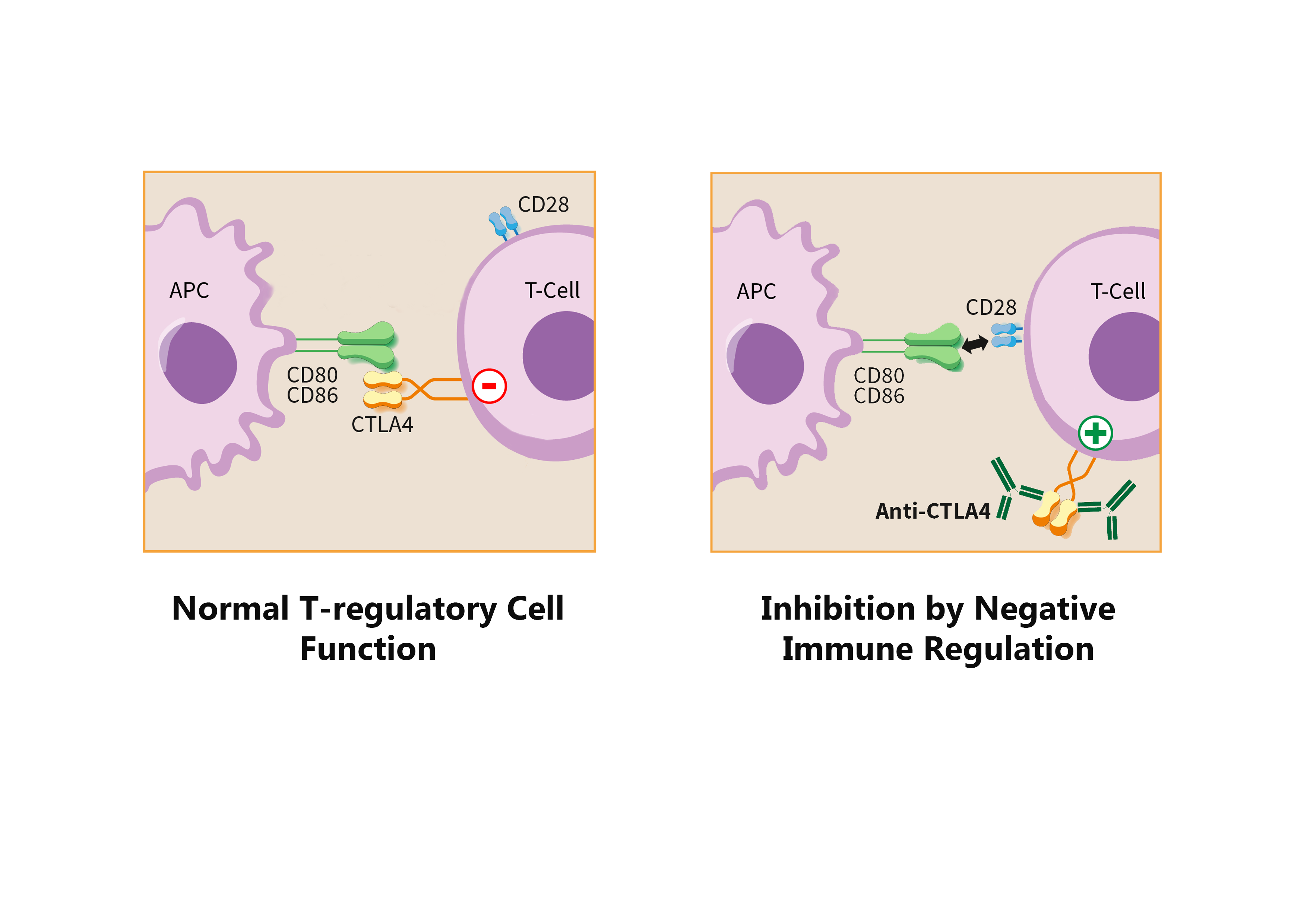 Diagram to help display the function of CD866 and the interaction with CTLA4